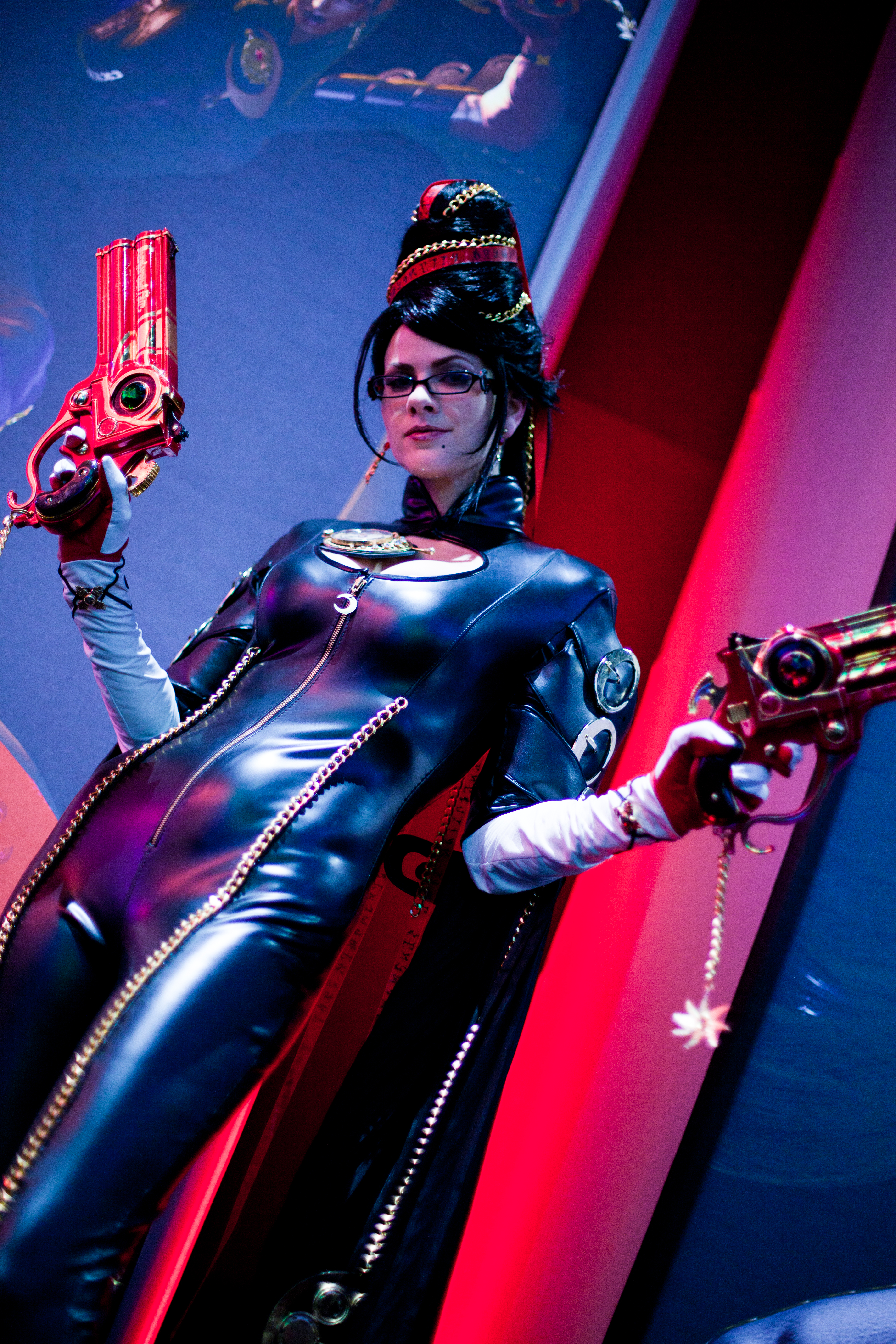 hahha, old pics from E3 2009 (the Electronic Games Expo)... er, just had to edit them and slap them up here. ; )